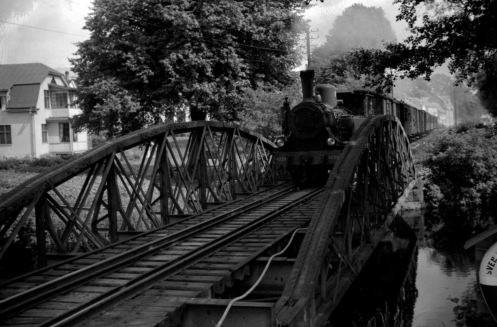 The old railwaybridge in Ronneby in 1950-1960 with railtraffic.